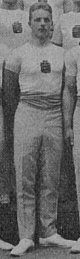 Otto Granström (1887–1941), a Finnish gymnast, who won bronze at the 1908 Summer Olympics. Cropped from File:Finland team event gymnasts 1908.png.